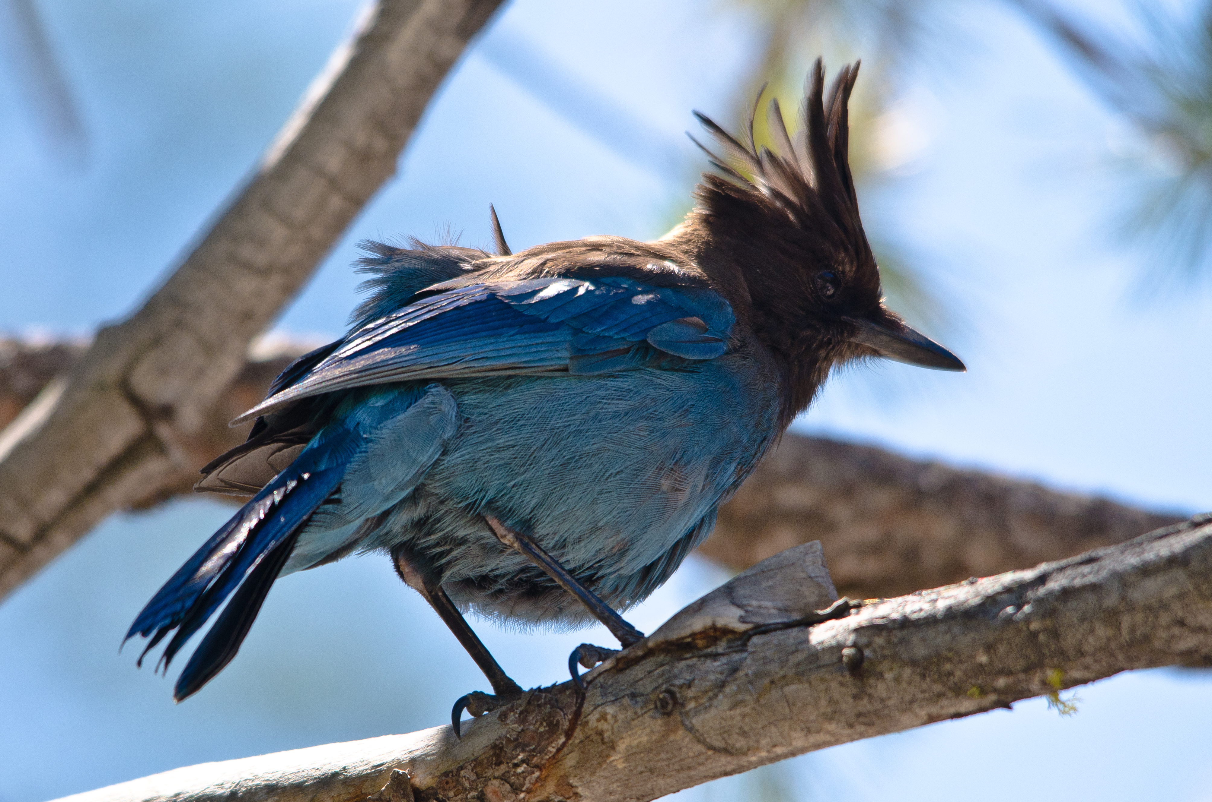 A Steller's Jay at Yosemite National Park, California, USA.